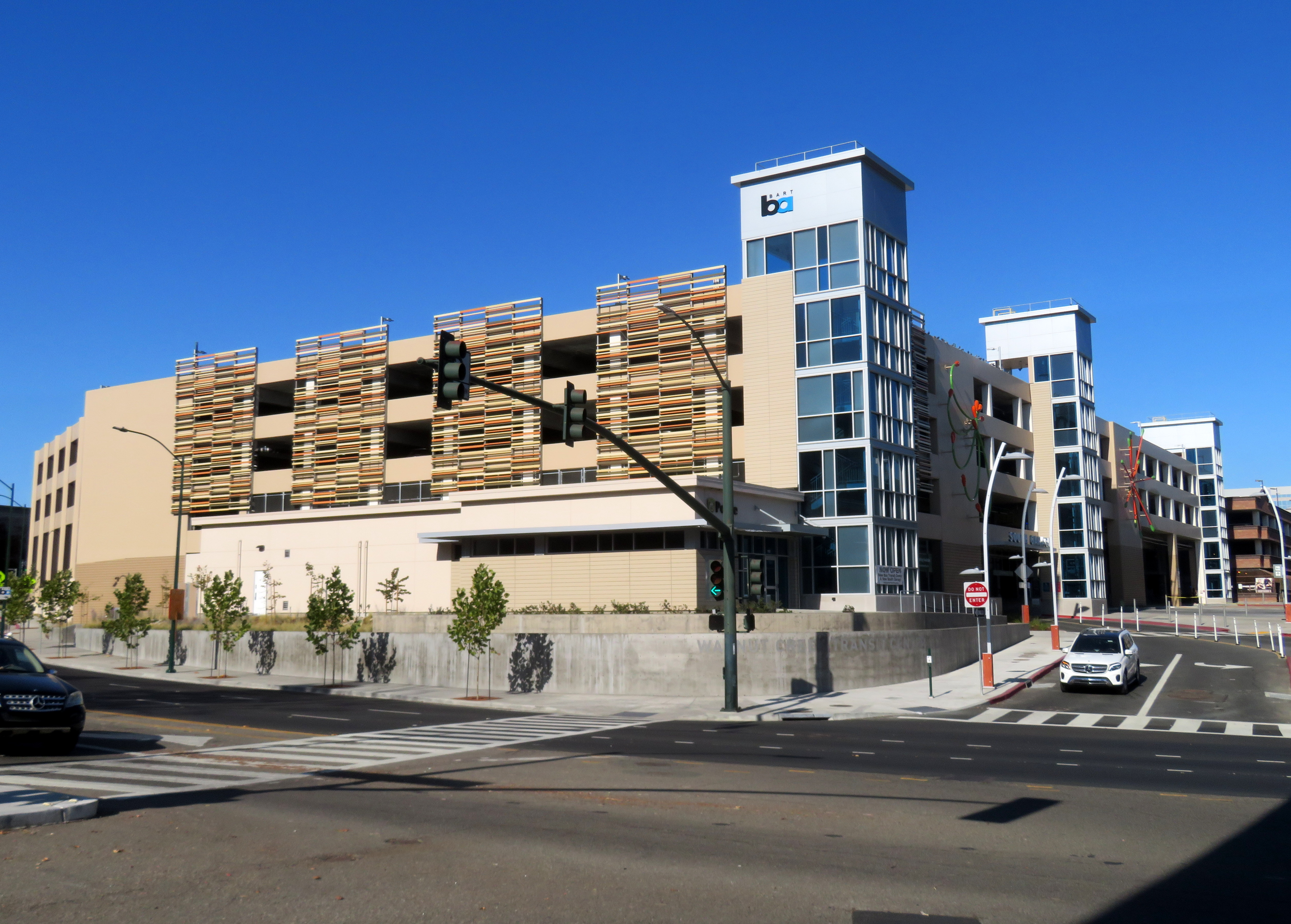 The south garage at Walnut Creek station in November 2019